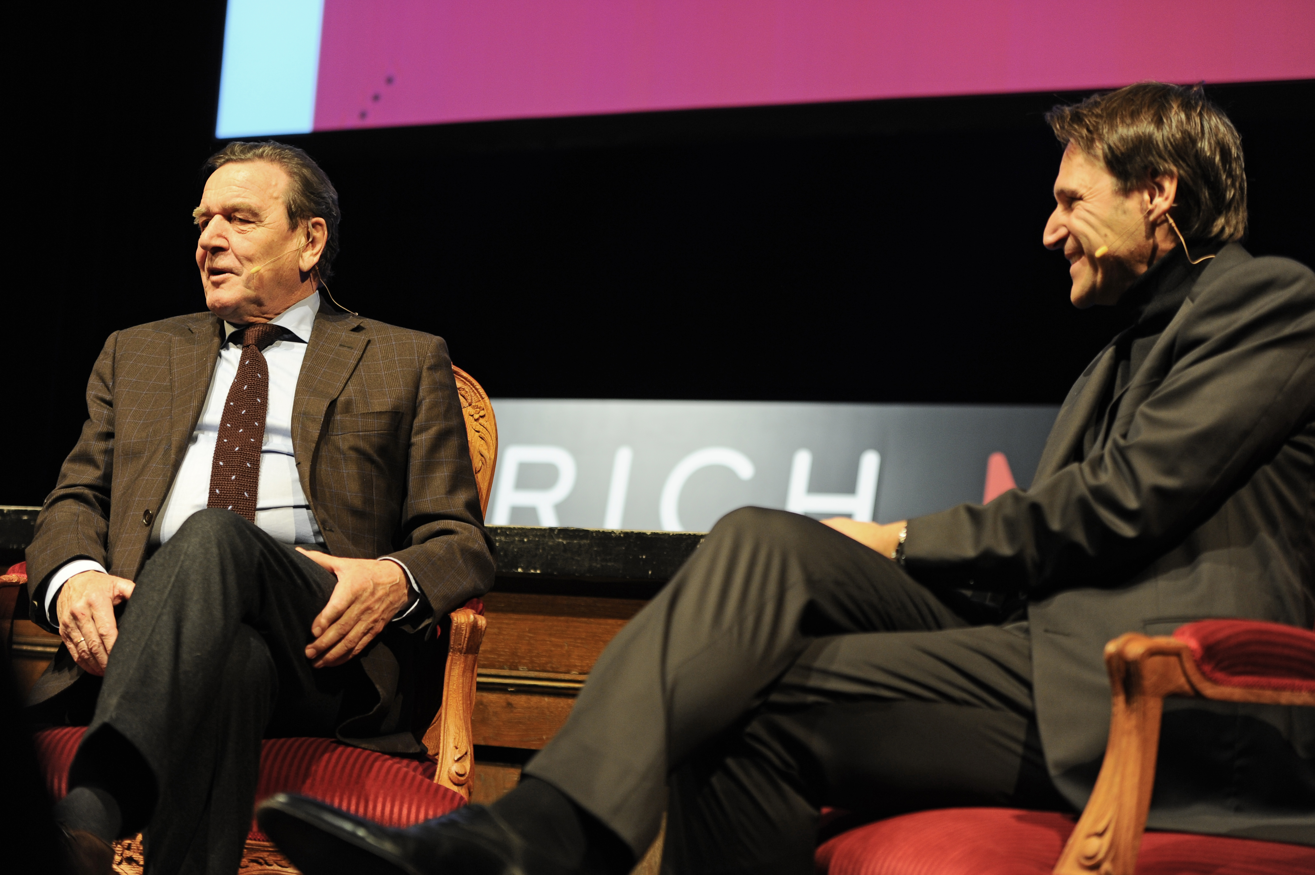 Gerhard Schröder (ex Chancellor of Germany) and Rolf Dobelli on stage at ZURICH.MINDS (12 Dec 2012)